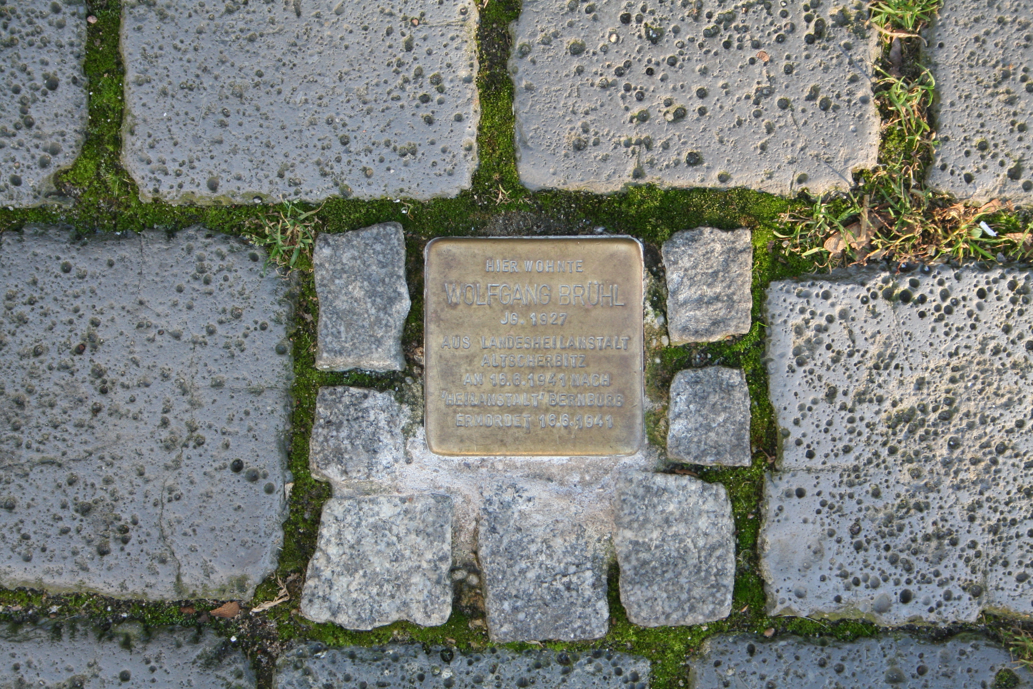 Stolperstein at Halle (Saale) for Wolfgang Brühl, Alter Markt 12